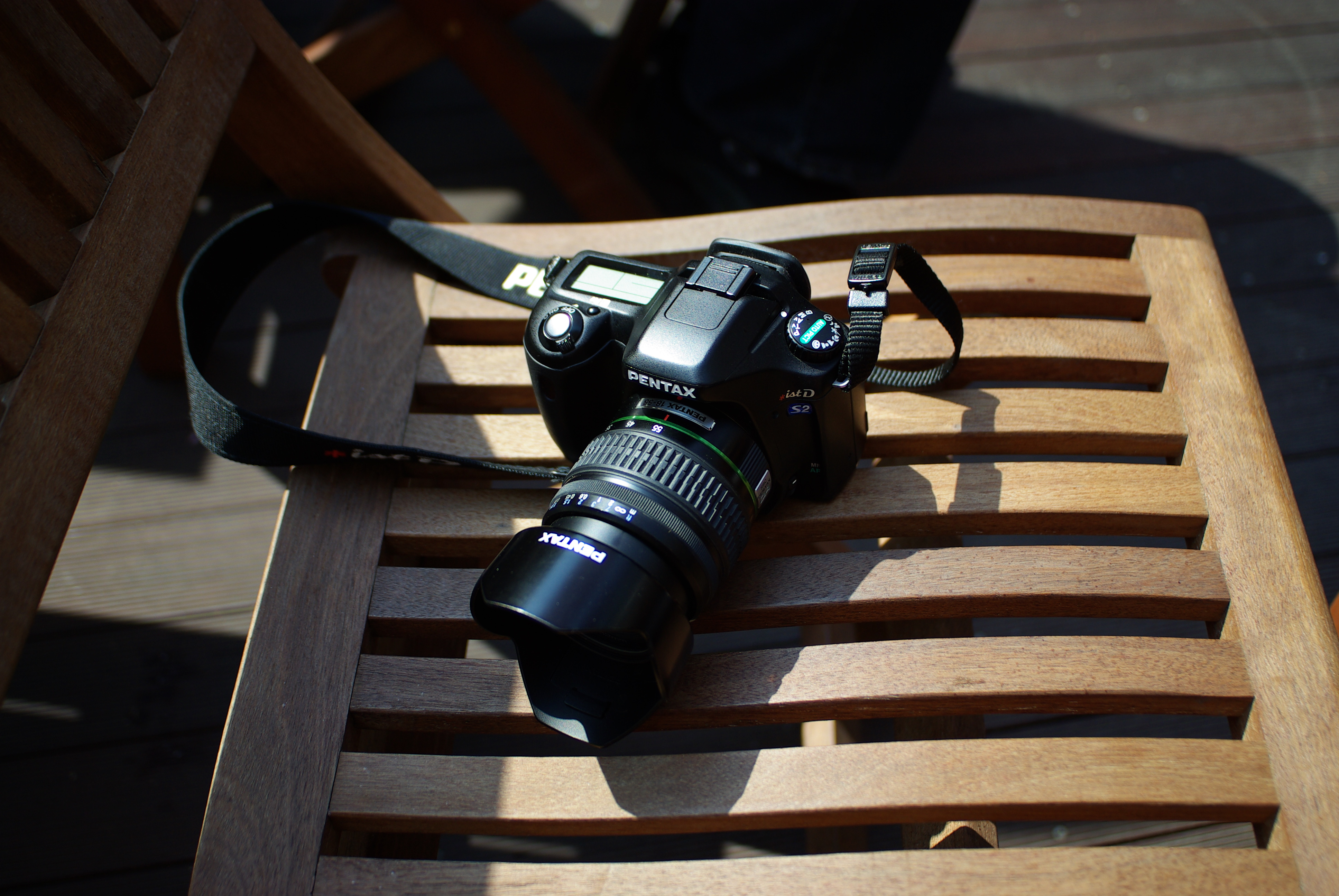 Pentax *ist DS2